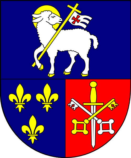 Coat of arms (shield only) of Juliusz Józef Dinder, archbishop of Gniezno - Poznań, Poland (1886 - 1890).